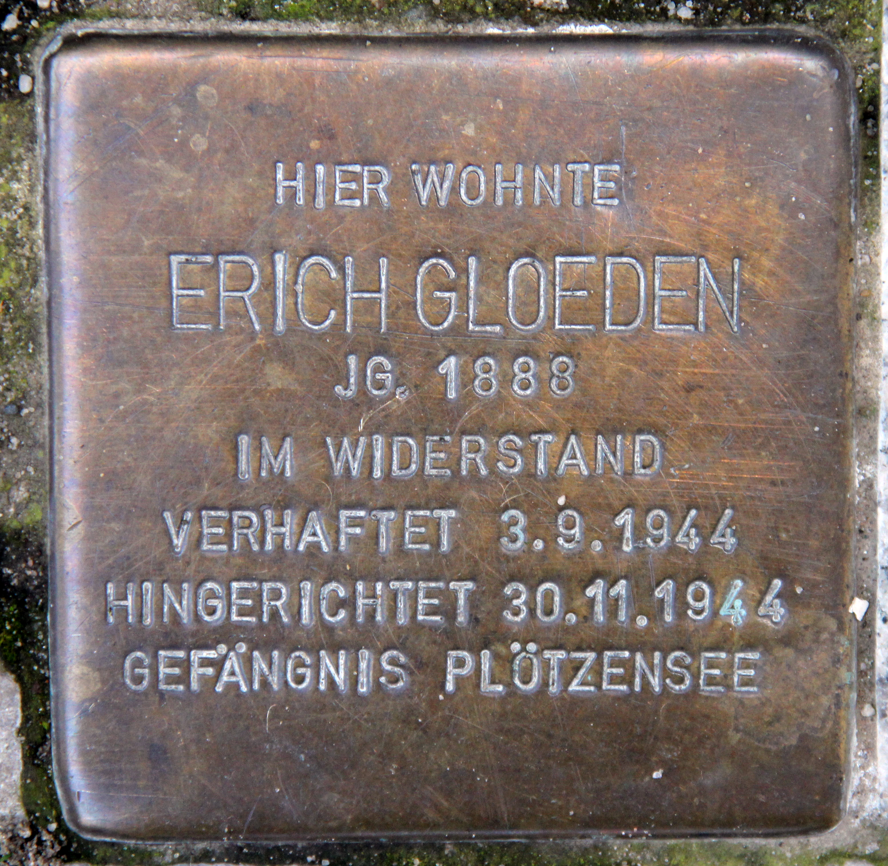 "Stolperstein" (stumbling block), Erich Gloeden, Kastanienallee 23, Berlin-Westend, Germany